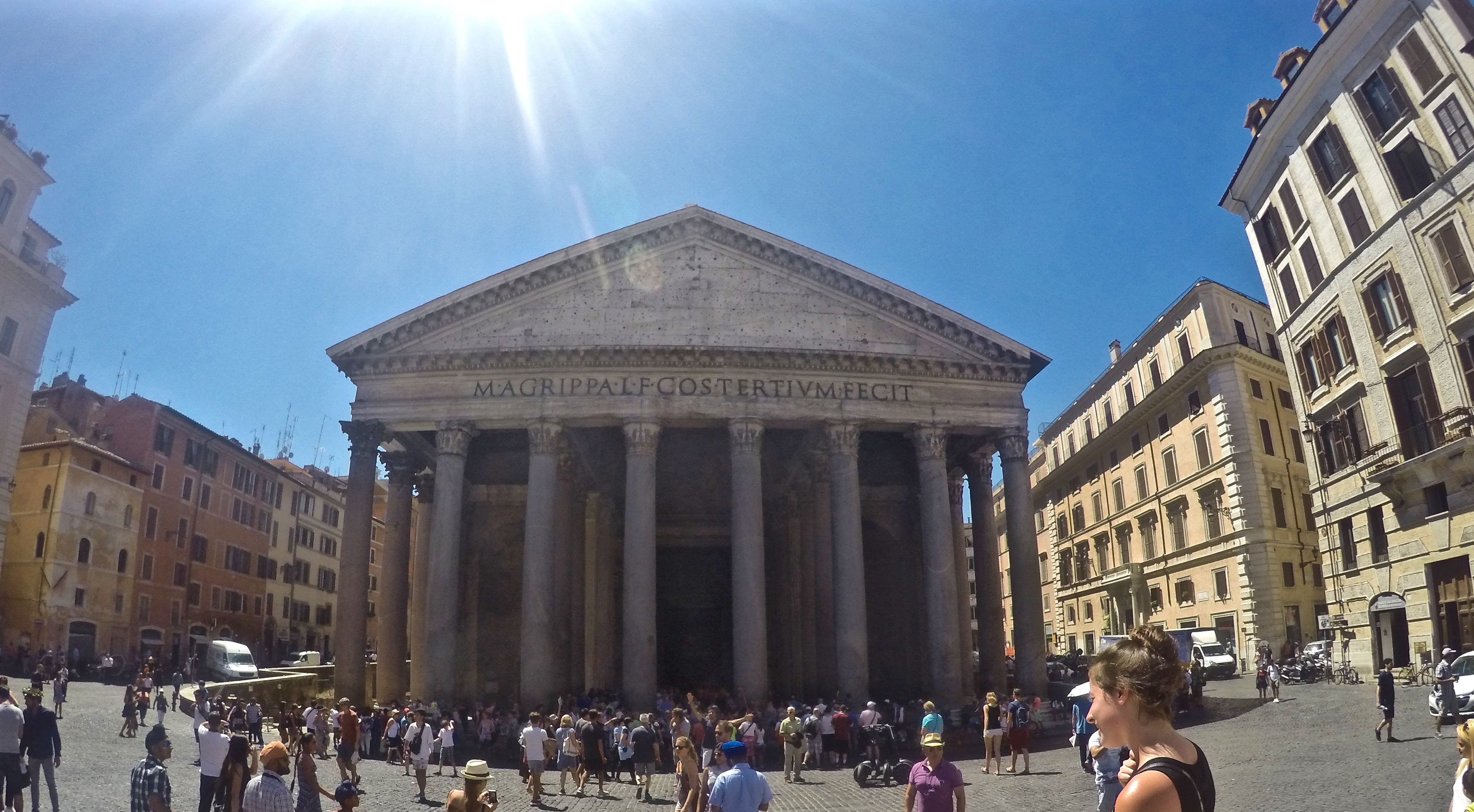 Taken out the front of the Pantheon in Rome